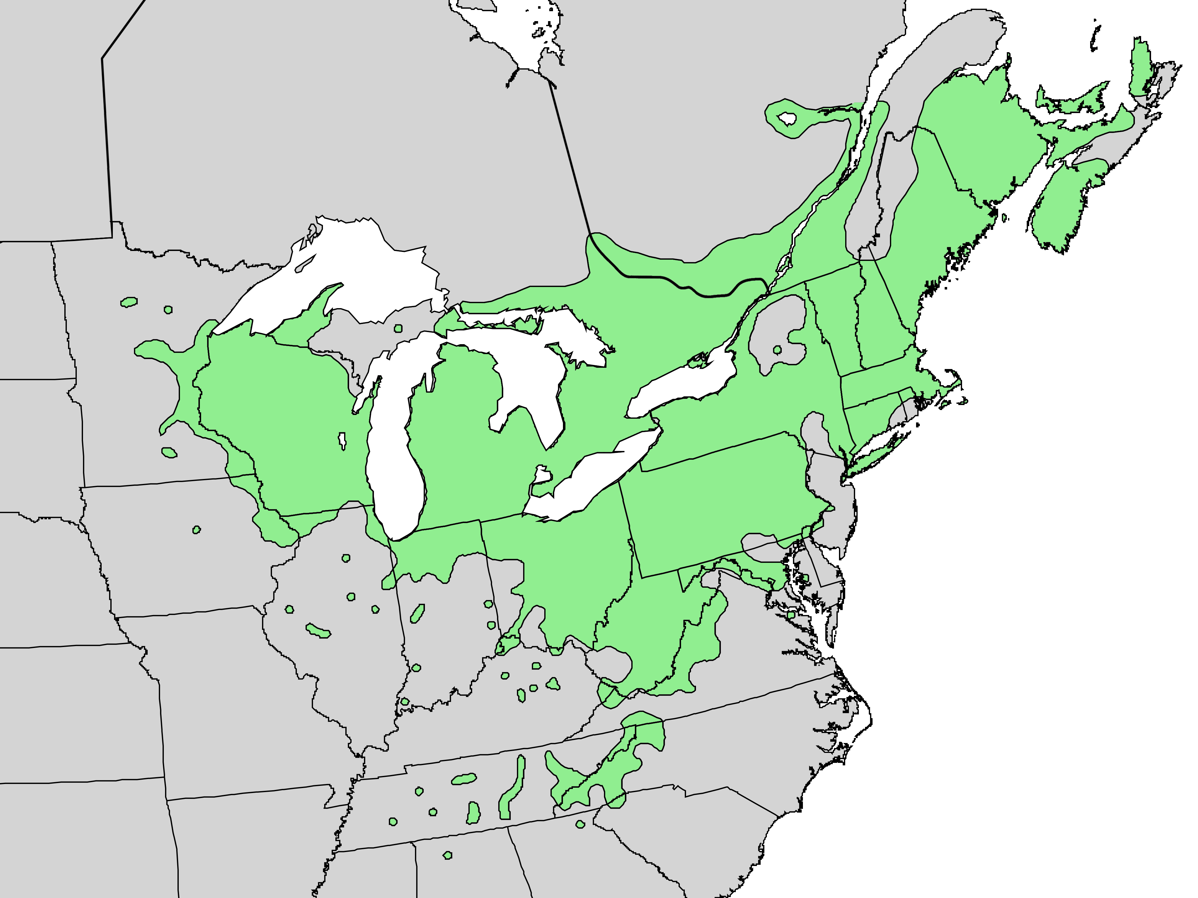 Range map of Rhus typhina — native to the Eastern U.S.